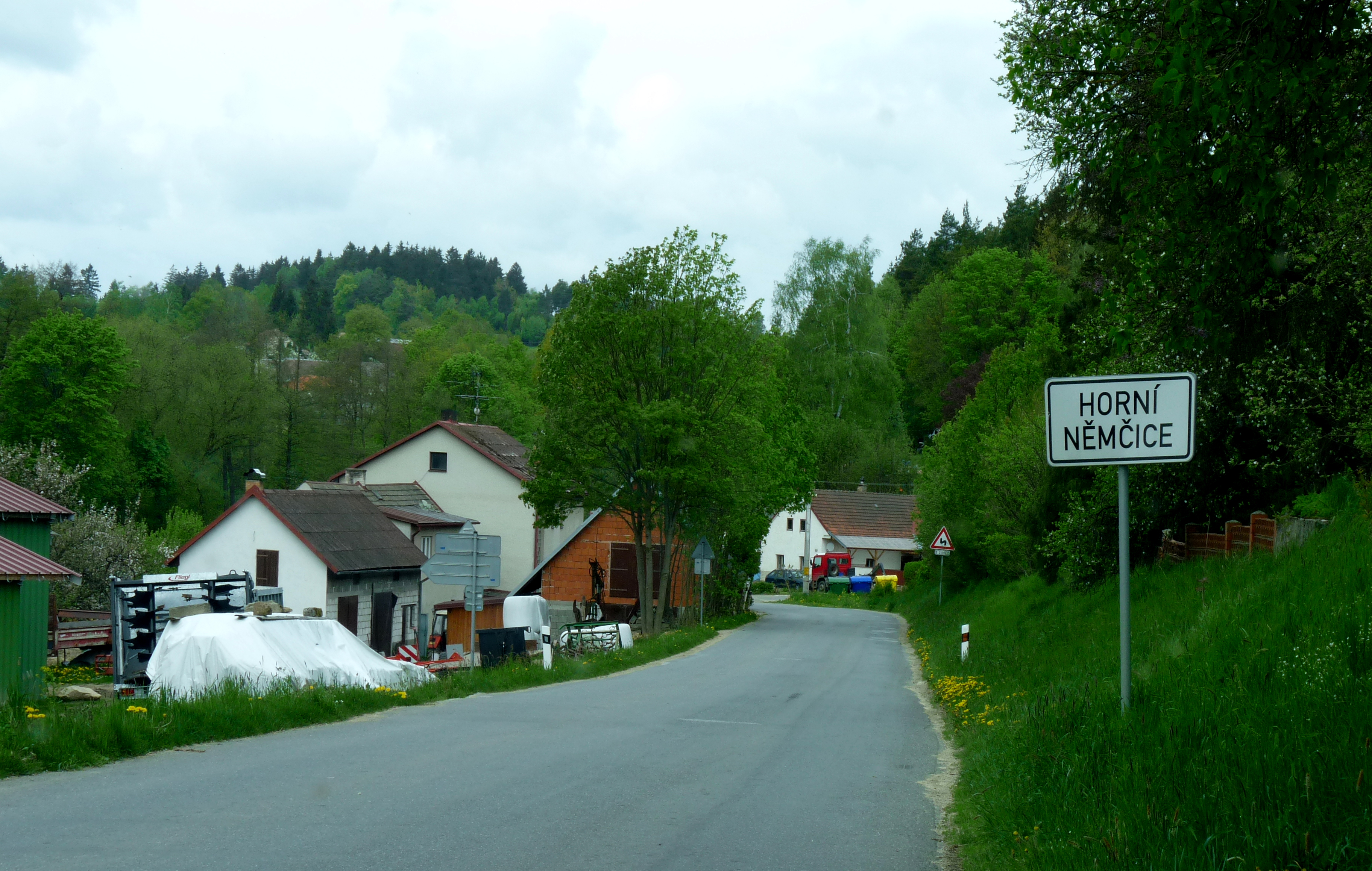 Southern part of the village of Horní Němčice, Jindřichův Hradec District, South Bohemian Region, Czech Republic.